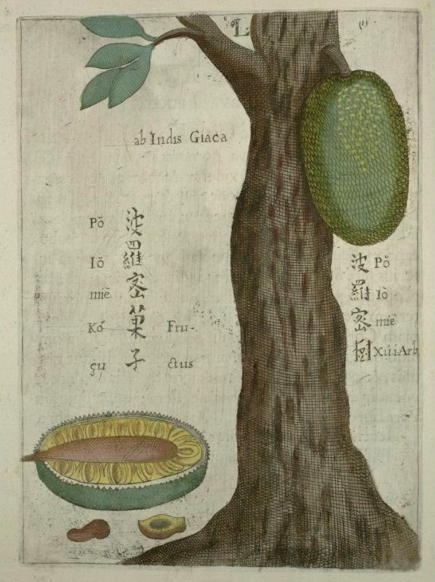 One of the earliest natural history books about China. Jesuit Missionary author. (obviously includes some non-Chinese {and non-floral} species)